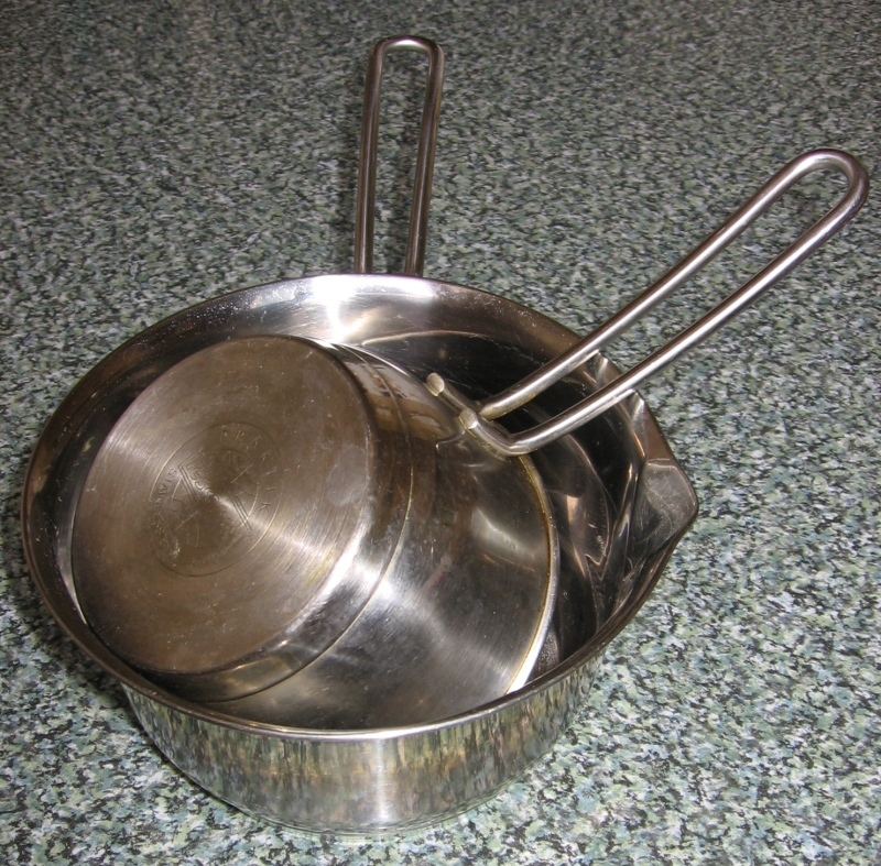 two saucepans different sizes